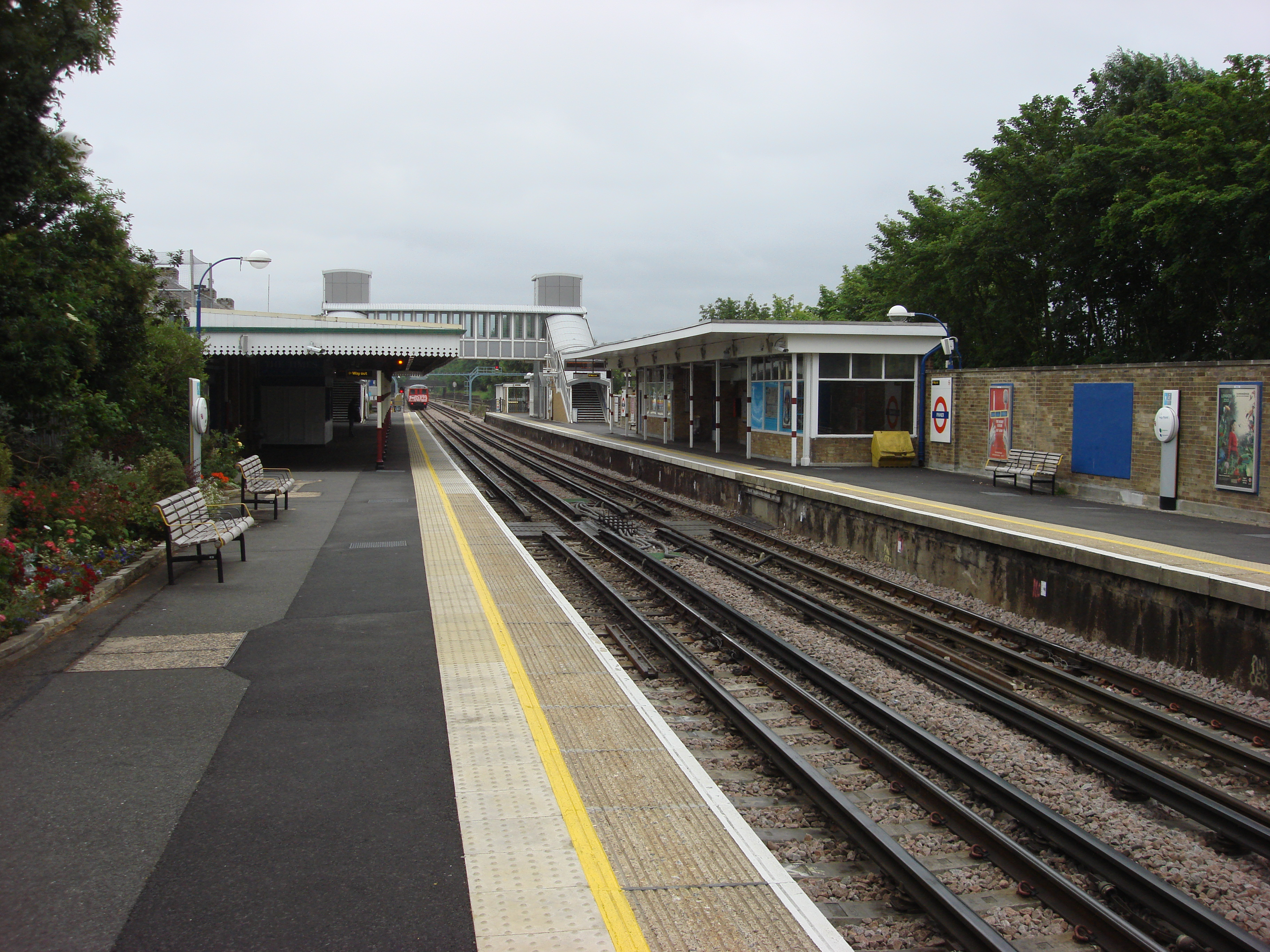 Pinner tube station, southbound platform